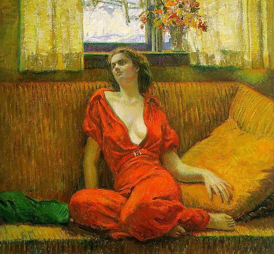 Lady in Red